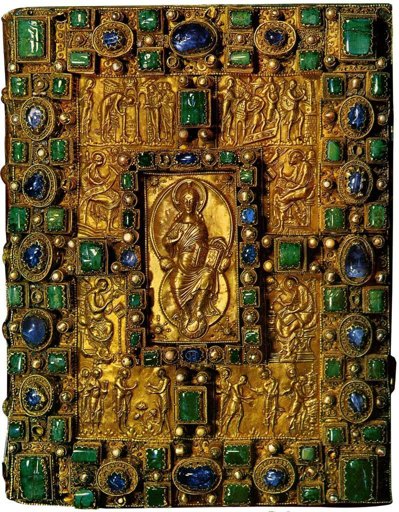 Image of the Cover of the famous Carolingian Gospel Codex Aureus of Sankt Emmeram. Made in ca. 870 at the Palace of Holy Roman Emperor Charles the Bald. Emperor Charles the Bald donated it to Arnulf of Carinthia who donated it to the Sankt Emmeram Abbey.